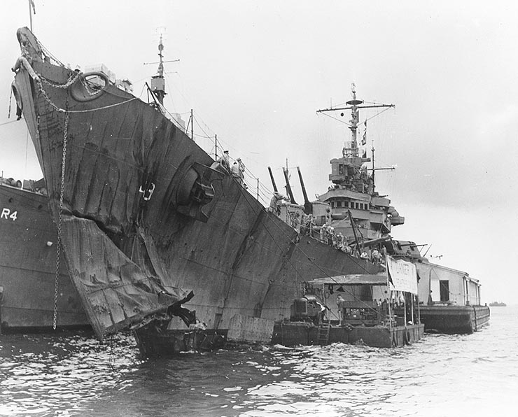 The U.S. Navy light cruiser USS St. Louis (CL-49), showing torpedo damage received during the Battle of Kolombangara on 13 July 1943. The photo was taken while the ship was under repair at Tulagi on 20 July 1943. The repair ship USS Vestal (AR-4) is alongside.